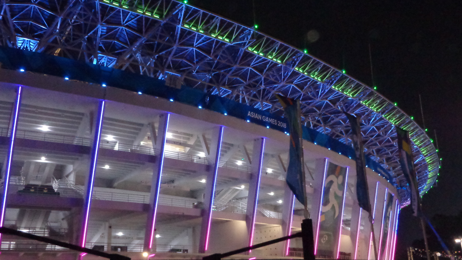 The Gelora Bung Karno Main Stadium with lightings, this shows blue, green, and purple lights.